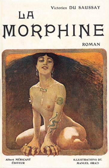 Book cover of La Morphine. Vices et passions des morphinomanes [by Victorien du Saussay], designed : Manuel Orazi, Paris, for the publisher Albert Méricant, 1906. This book includes 22 illustrations by the same.